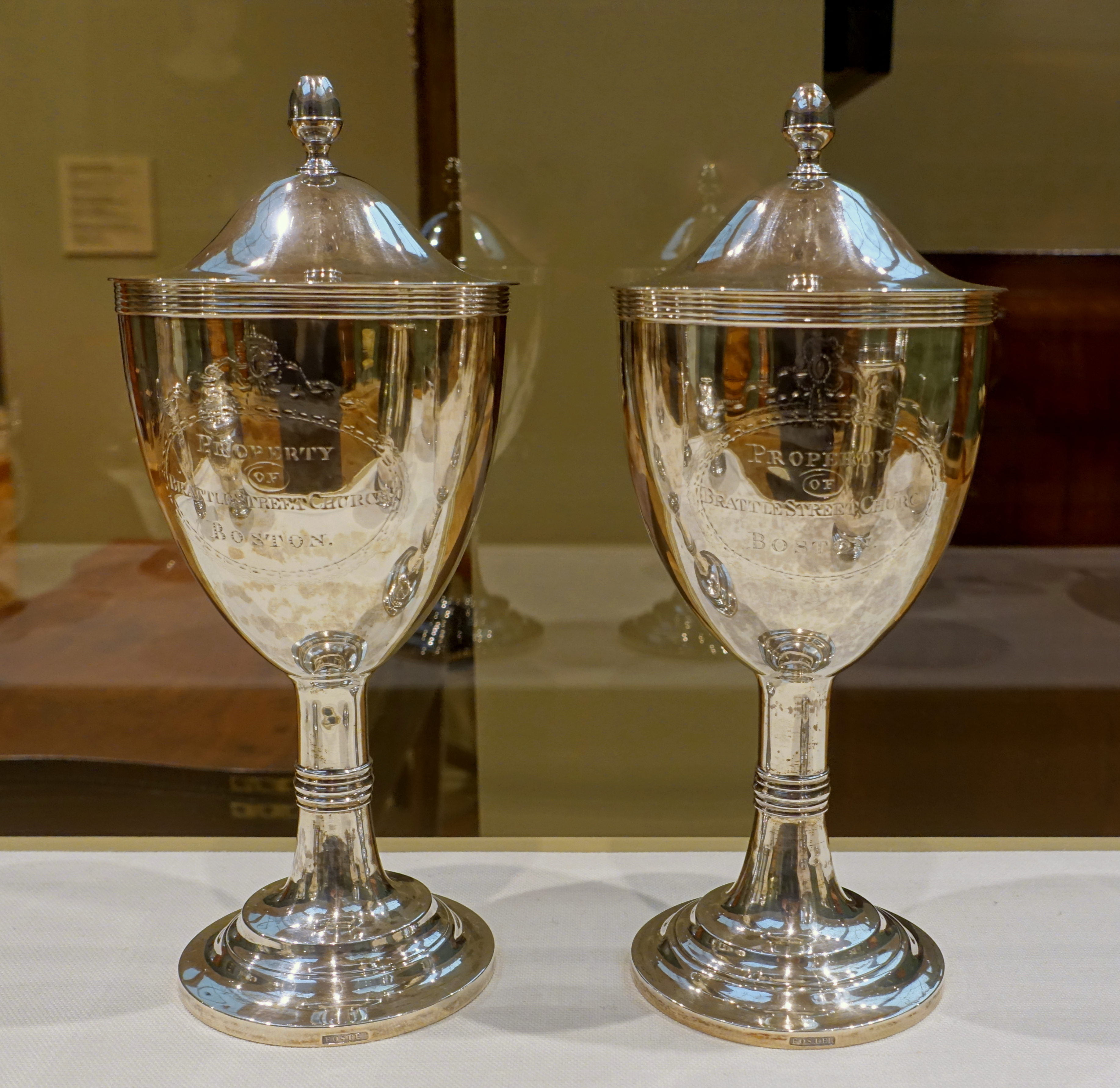 Exhibit in the Currier Museum of Art - Manchester, New Hampshire, USA.